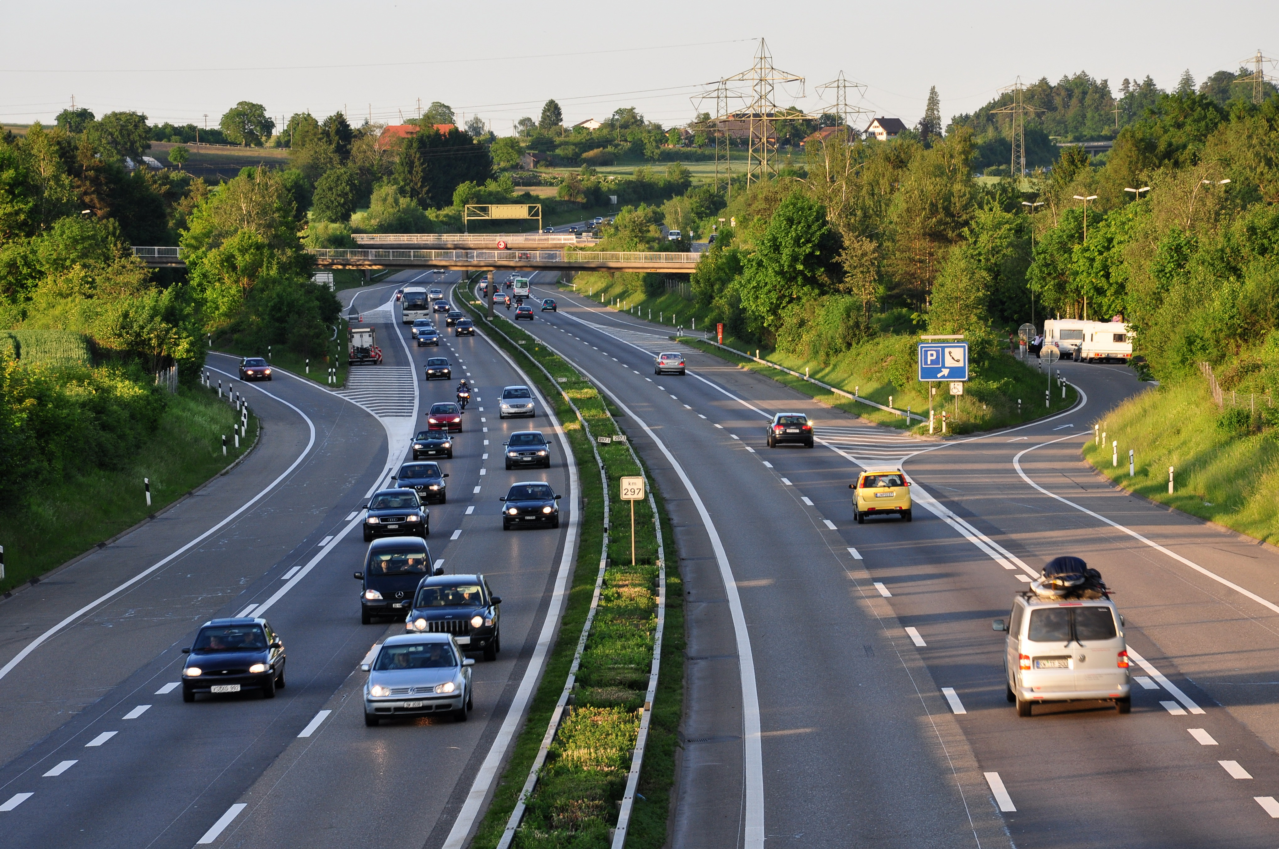 A1 between Zürich-Affoltern and Rümlang (Switzerland), Affoltern to the right.